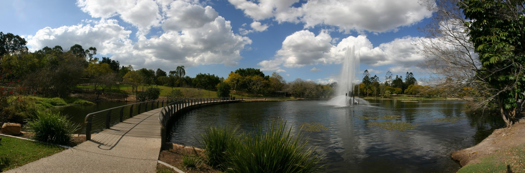 UQ Lake viewed toward the South-East at the University of Queensland, St Lucia, Queensland, Australia